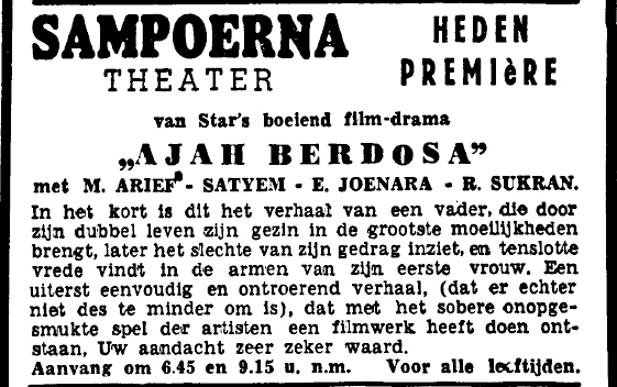 Advertisement for the 1941 film Siti Noerbaja